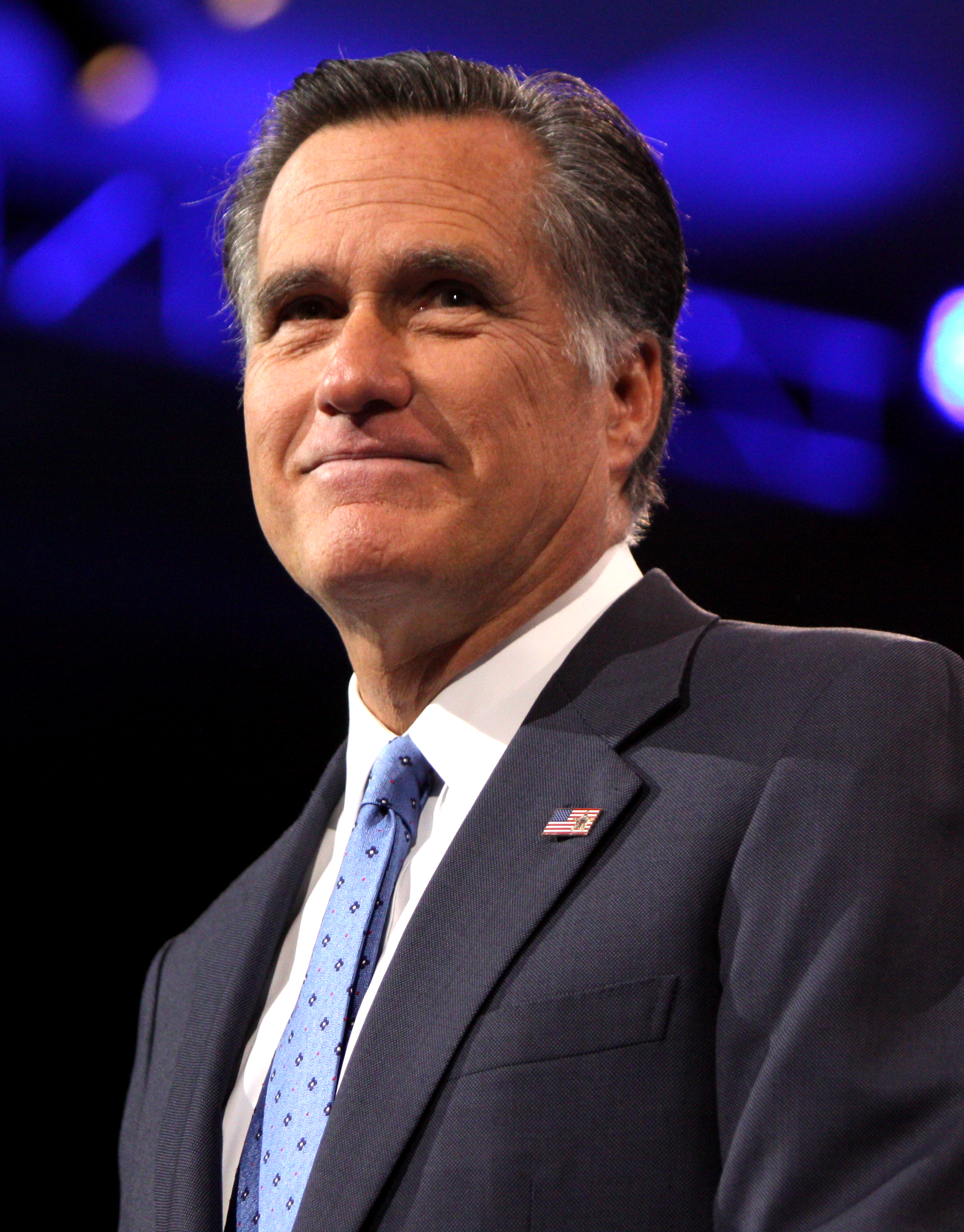 Mitt Romney speaking at the 2013 CPAC in Washington D.C. on March 15, 2013.